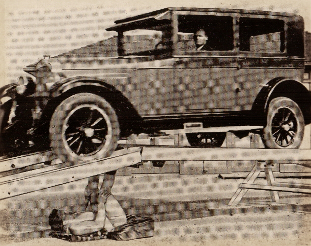 Heinrich "Milo" Steiborn took the load of that car while it drove over the wooden construction. They didn't believe him to be able to do it, his proof was a real advert for him and his power at that time.